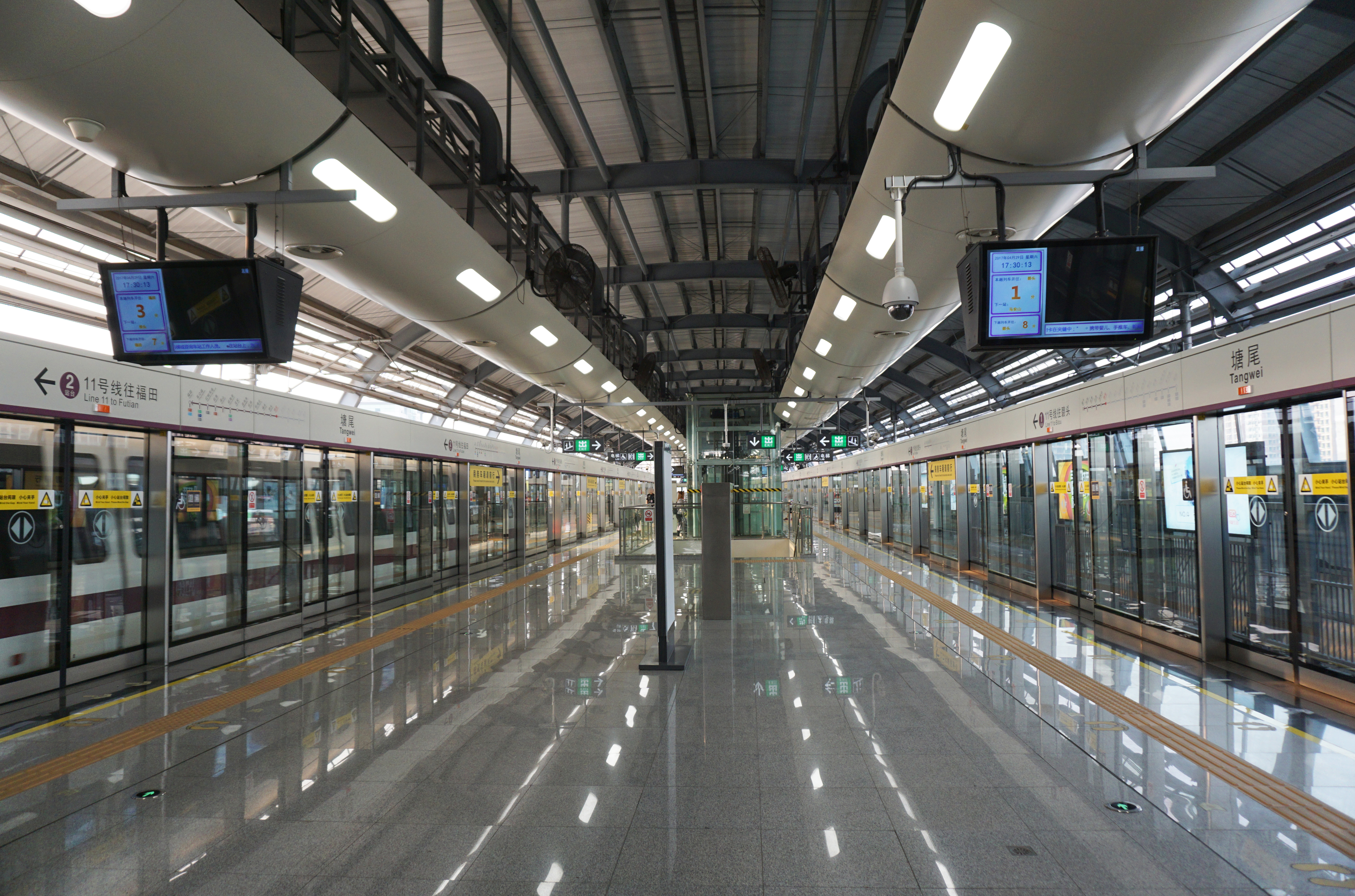 Tangwei Station in Fuyong, Shenzhen.